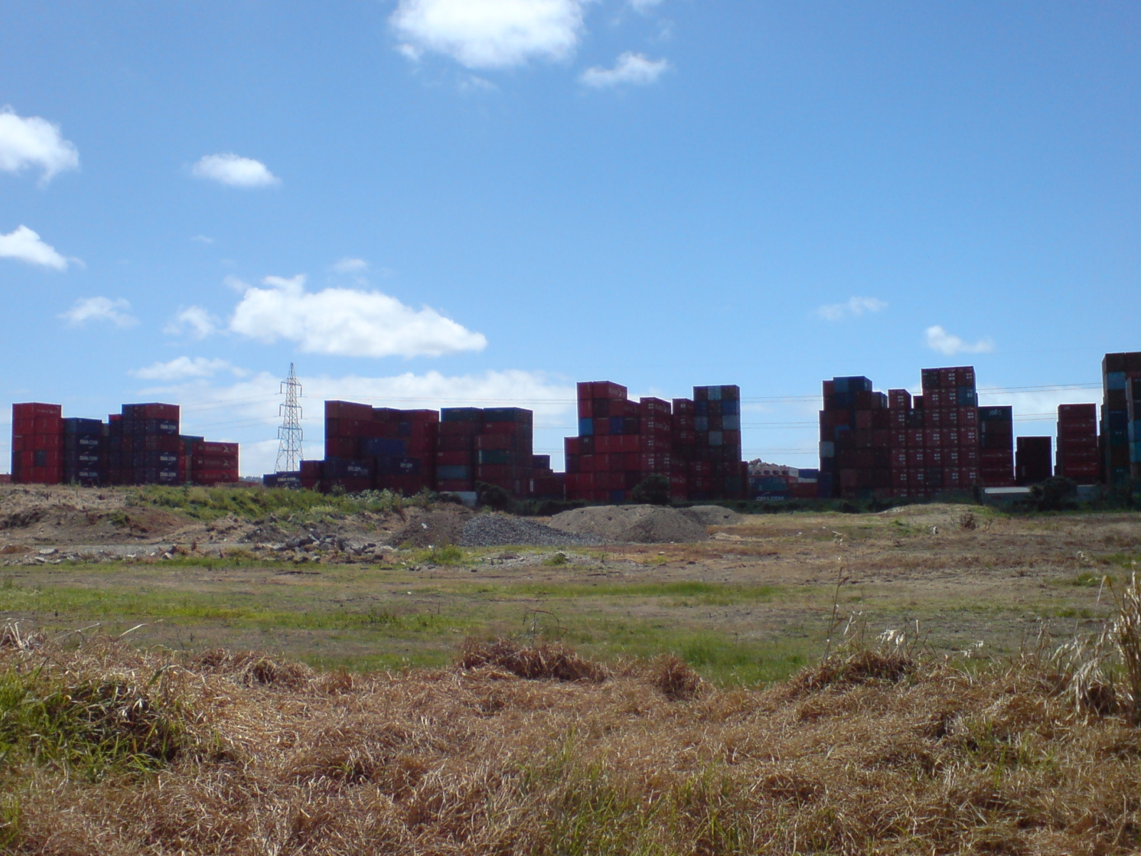 The mountaineous tablelands of the Southdown inland port / rail container freight yards in Auckland City, New Zealand.